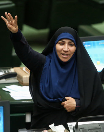 Hajar Chenarani, Neyshabour representative at the Iranian Majlis